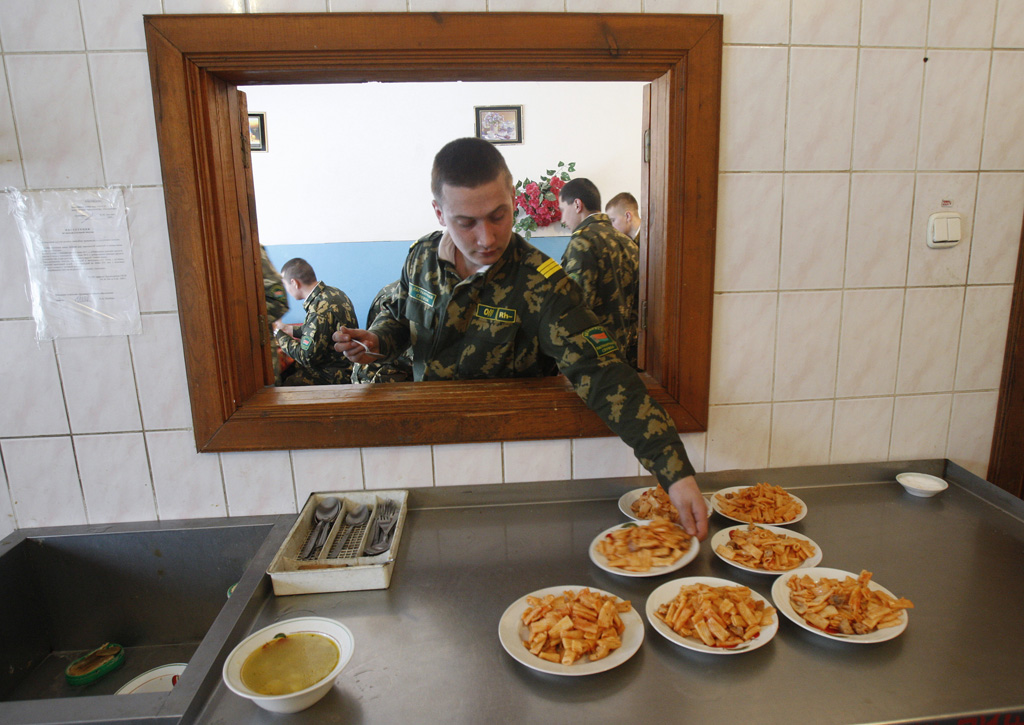 “Work of "Kamenyuki" frontier post on Belarus border with Poland”. Soldiers eating lunch at the 3rd "Kamenyuki" frontier post in the Bialowieza Forest on the Belarus border with Poland.